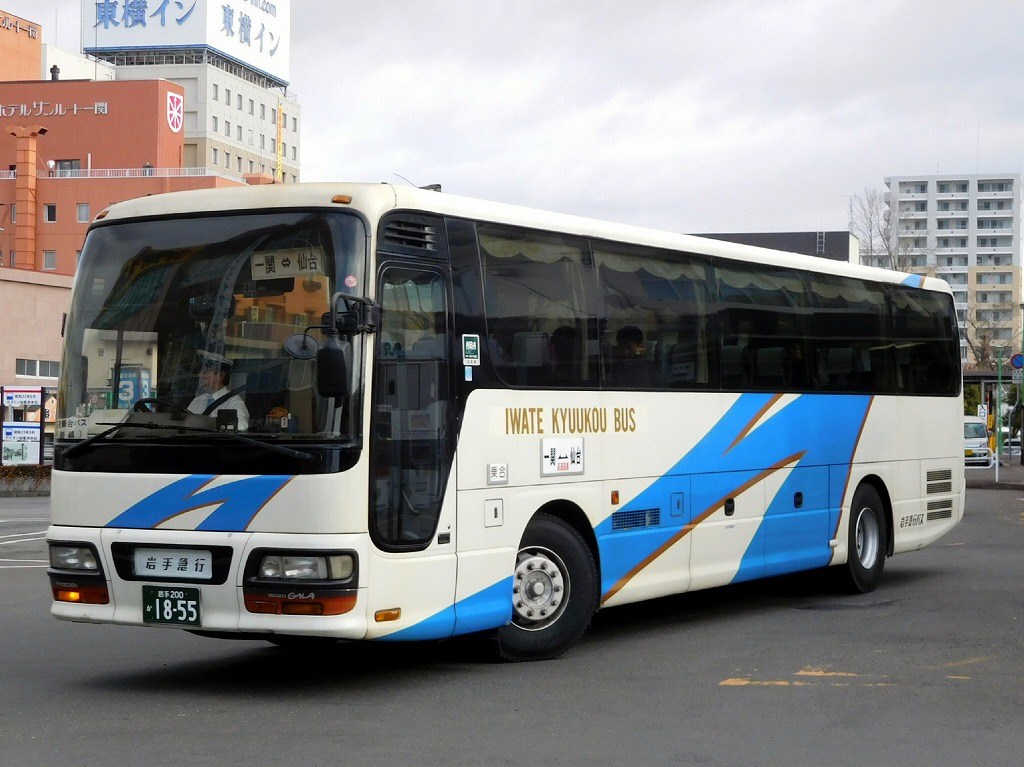 Iwate express bus Isuzu Gala (KC-LV781R1) from Higashinippon express highwaybus "Ichinoseki-Sendai"